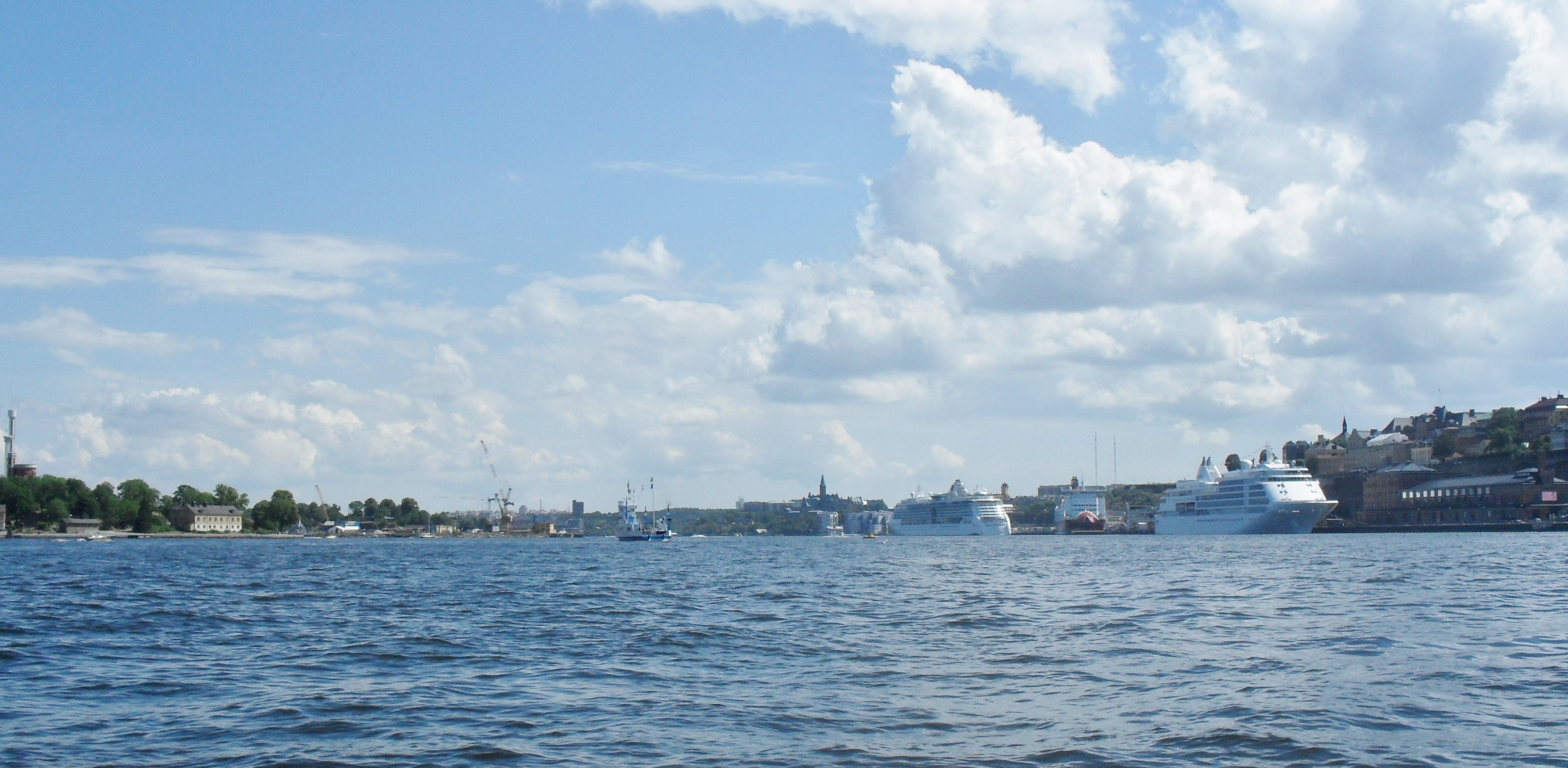 Stockholm's Saltsjön with cruise ships (Jewel of the Seas, Mariella, and Silver Whisper) and the Viking Line terminal, Sweden.